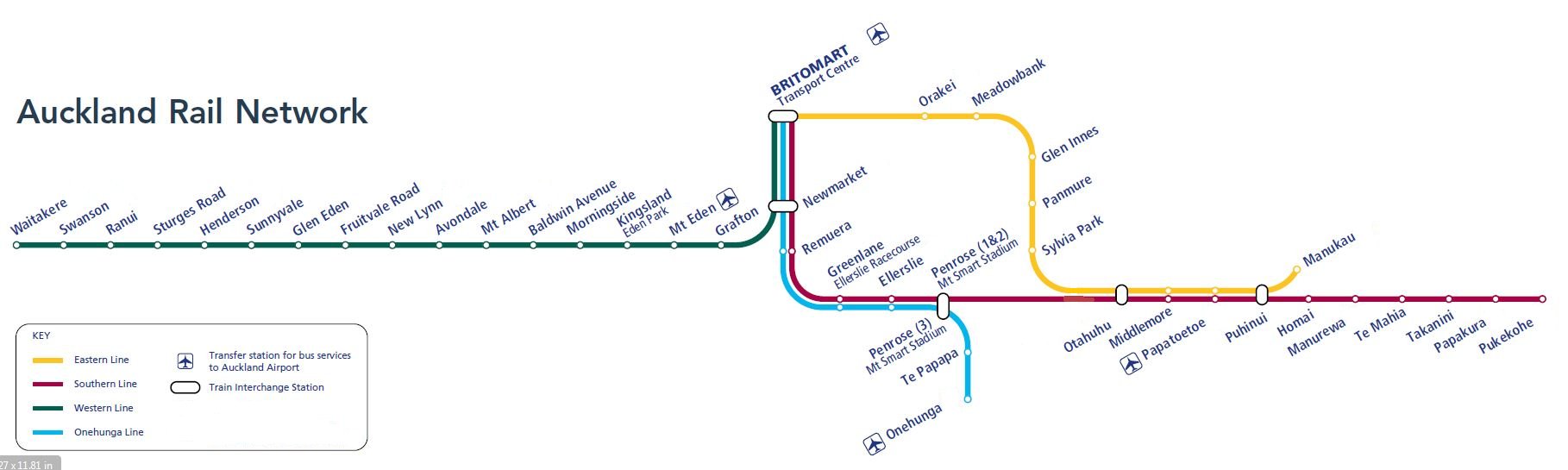 The current rail network map of Auckland from 12 March 2017